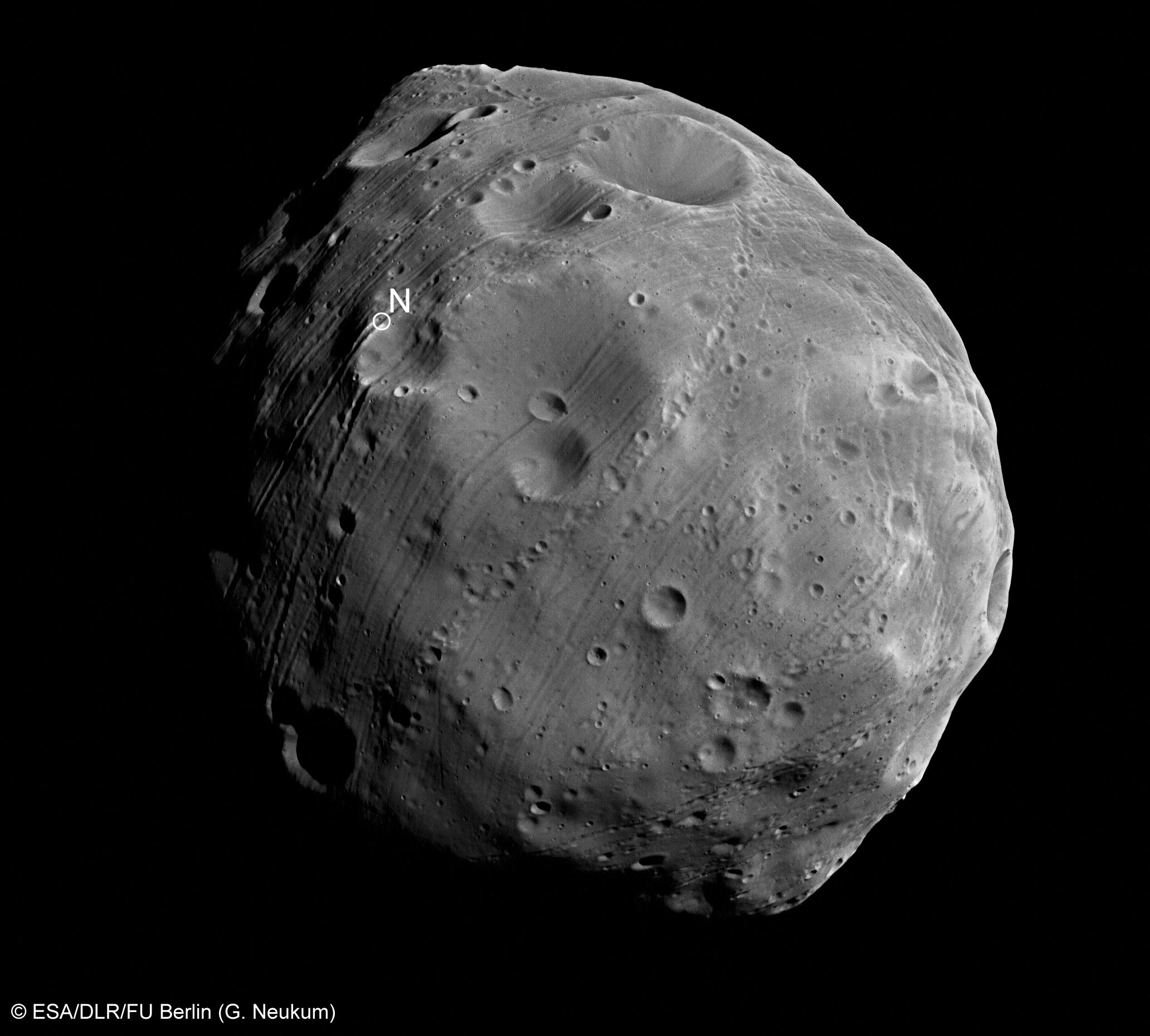 Mars' moon Phobos has already been extensively observed – this image is just one example, taken in 2009 – so its occultation of Mars Express on 28 April 2014 is not expected to yield dramatic discoveries. But science lies in the smallest things – like obtaining a 'snapshot in time' of continuous change. The occultation meant that, for a brief time, Phobos passed between Mars Express and Earth, blocking the spacecraft’s radio signal. The break in the signal was small – about nine seconds – but the precise start and end times are valuable information. These will allow scientists to calculate the orbit of Phobos with great precision – specifically the mean distance from Mars, which is notoriously difficult to pin down because Phobos’ natural motion around the planet changes over time. Phobos and sister moon Deimos are formidable scientific enigmas. There is no confirmed theory of their origin that offers a satisfactory explanation for their current orbits and appearances. They could be excellent targets for future robotic landings. ESA experts analysed yesterday’s data from the tracking station and found the occultation to have started just before 01:08:24 GMT, lasting until shortly before 01:08:33 GMT. Now, we’ll know the orbit of Phobos with just a little more precision, at least for a while. More information on yesterday's occultation